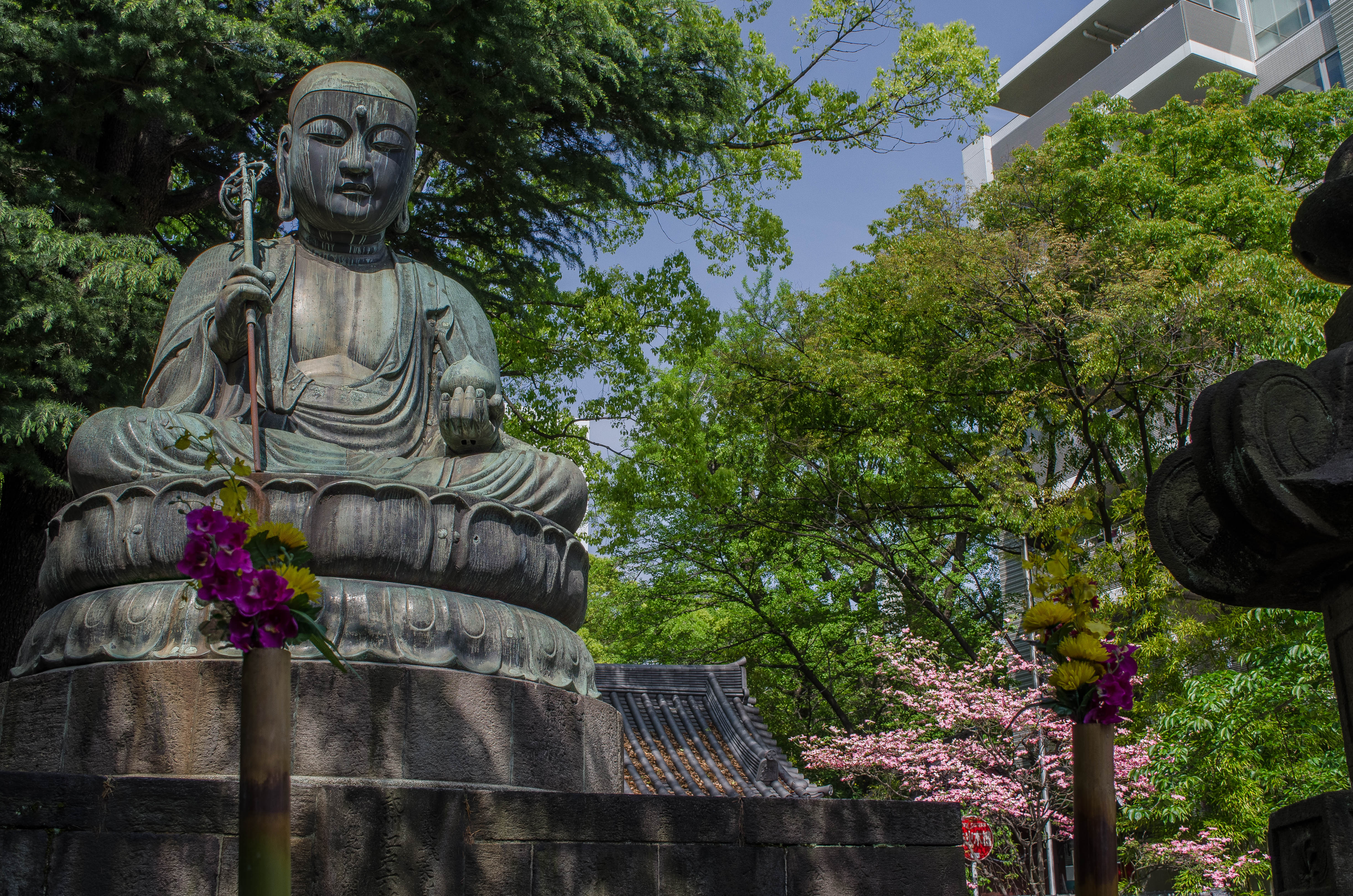 Jizō statue built in 1708 at Honsen-ji Temple, Shinagawa, Tokyo.